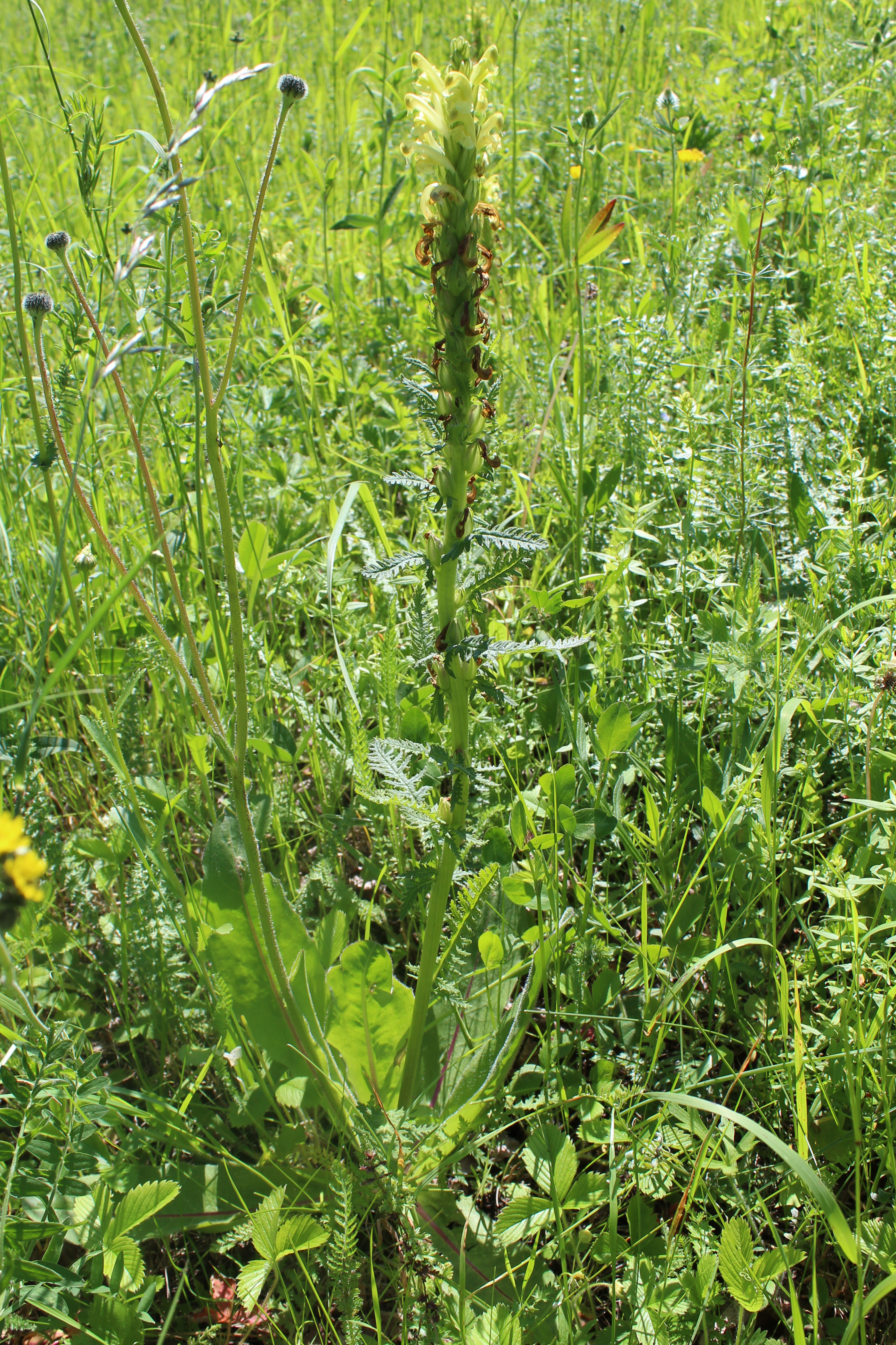 Pedicularis kaufmannii with Hypochaeris maculata and other plants